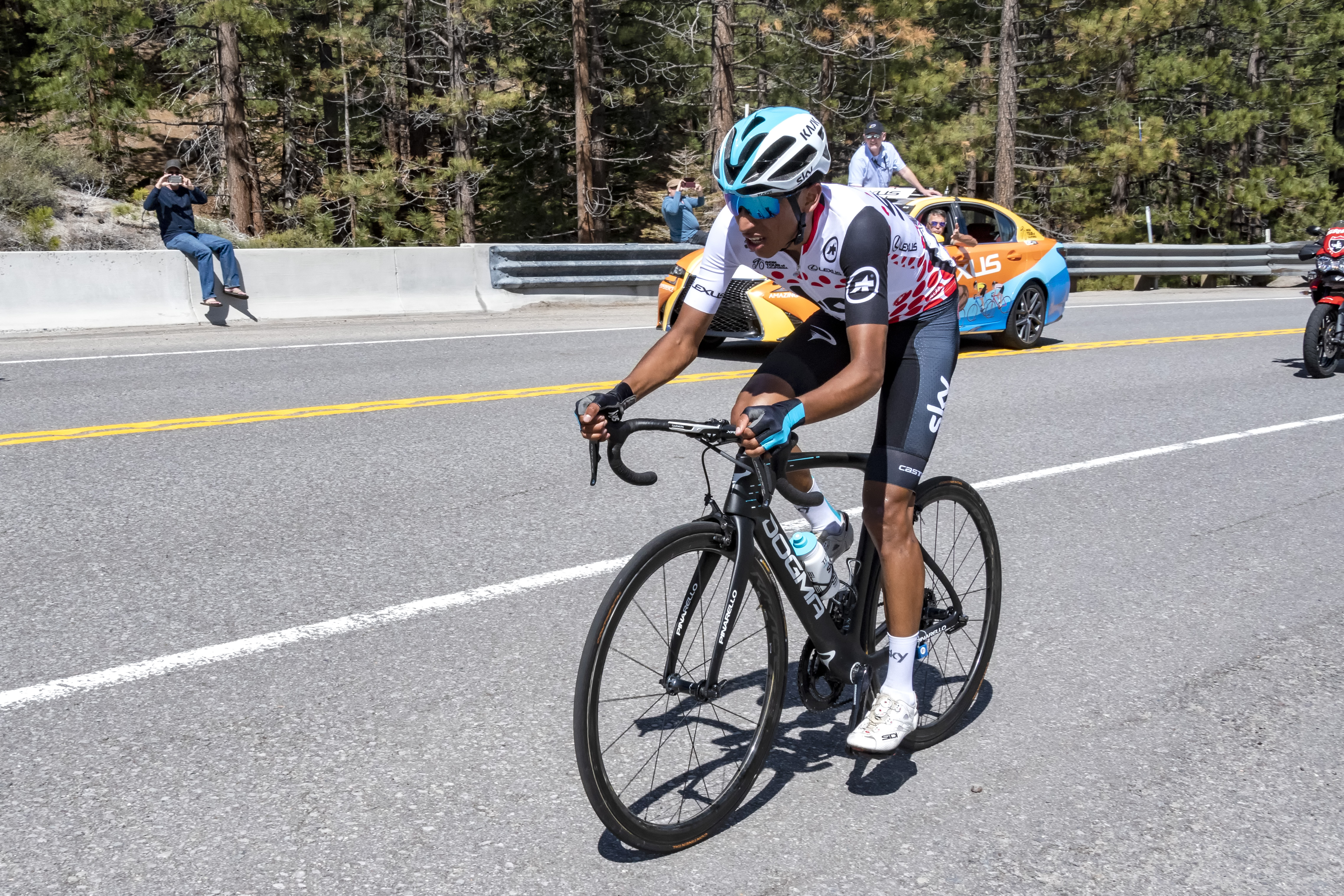 Egan Bernal solo, 6th etape Tour of California 2018